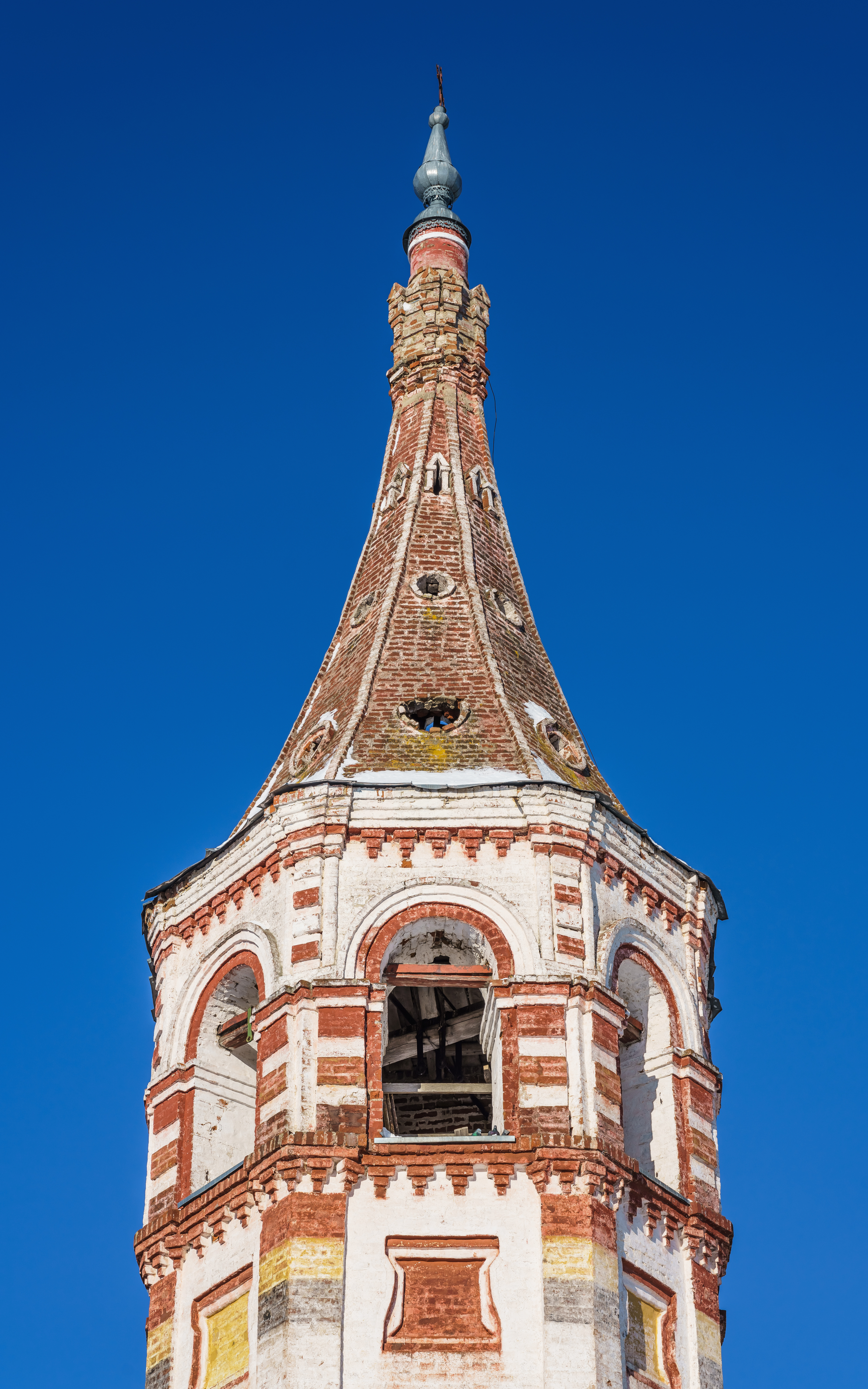 Bell tower of St. Antipas Church in Suzdal, Russia